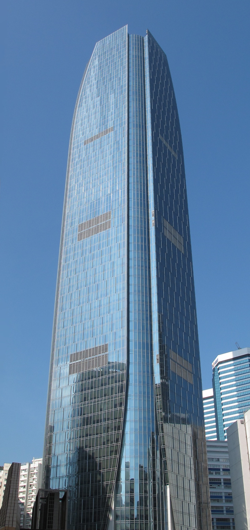 One Island East 港島東中心